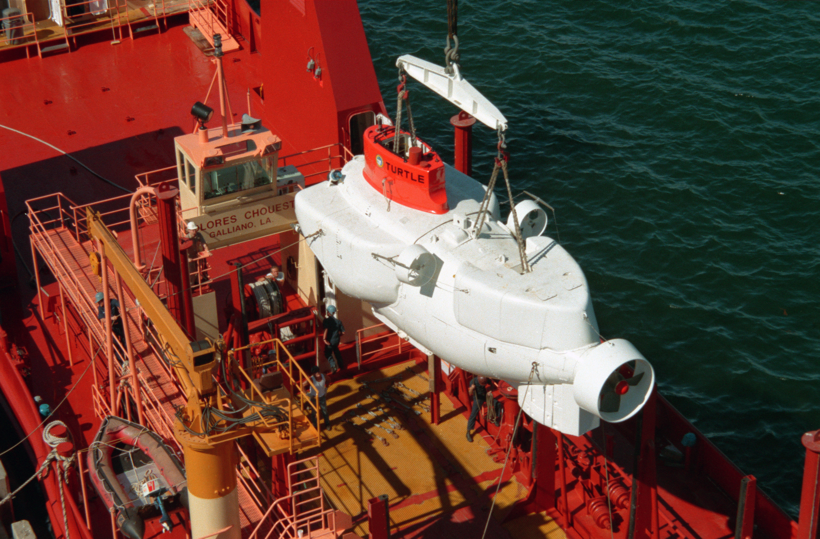 The US Navy (USN) 21-ton Deep Submergence Vehicle Turtle (DSV-3), Submarine Development Squadron 5 (COMSUBDEVRON FIVE), is raised from the deck of the Military Sealift Command's Submarine Support Vessel MV Dolores Chouest at Naval Air Station North Island, California, after its return from sea trials. The Turtle is used in a wide variety of scientific research and recovery operations. The exact date photo taken is unknown. Location: Naval Air Station, North Island, California